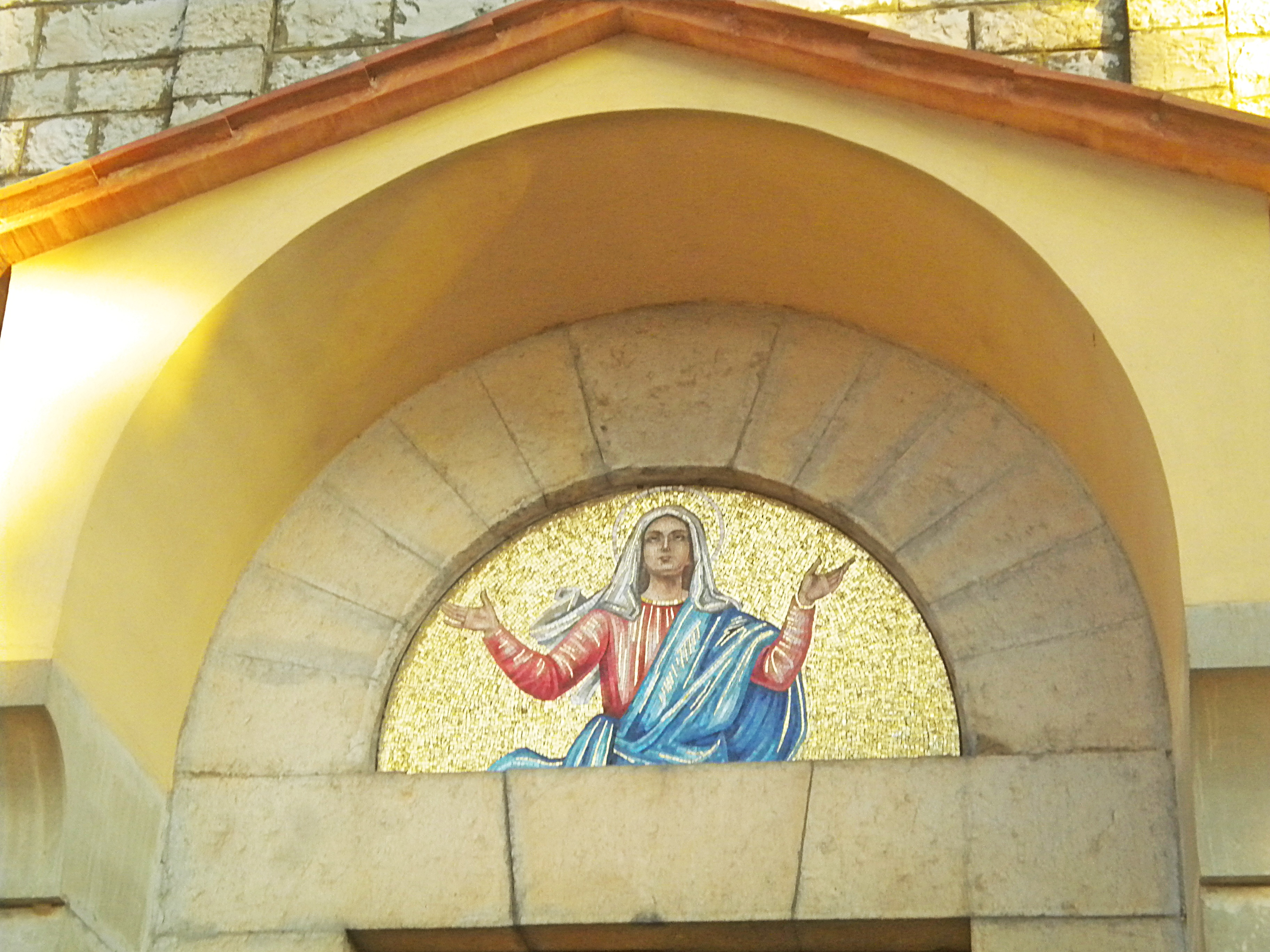 lunetta